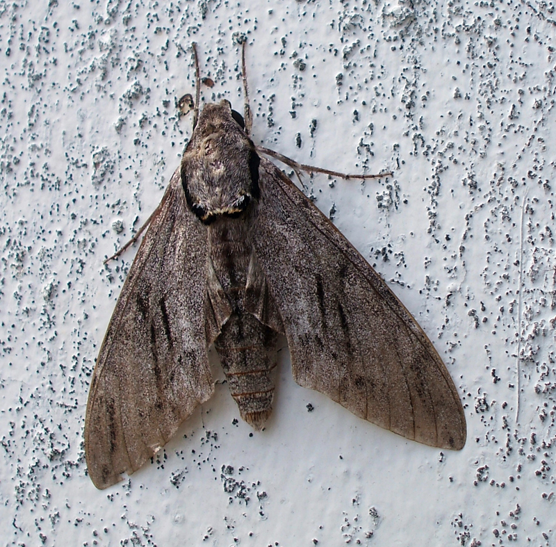 From my trip to Thailand - May 28th - 4th June 2011, most moths were found at the various temples which had metal hallide bulbs fitted to them. The ones labelled 'Hang Dong' came to my 22w Actinic light. Please feel free to help aid identification or correct my proposed identifications.